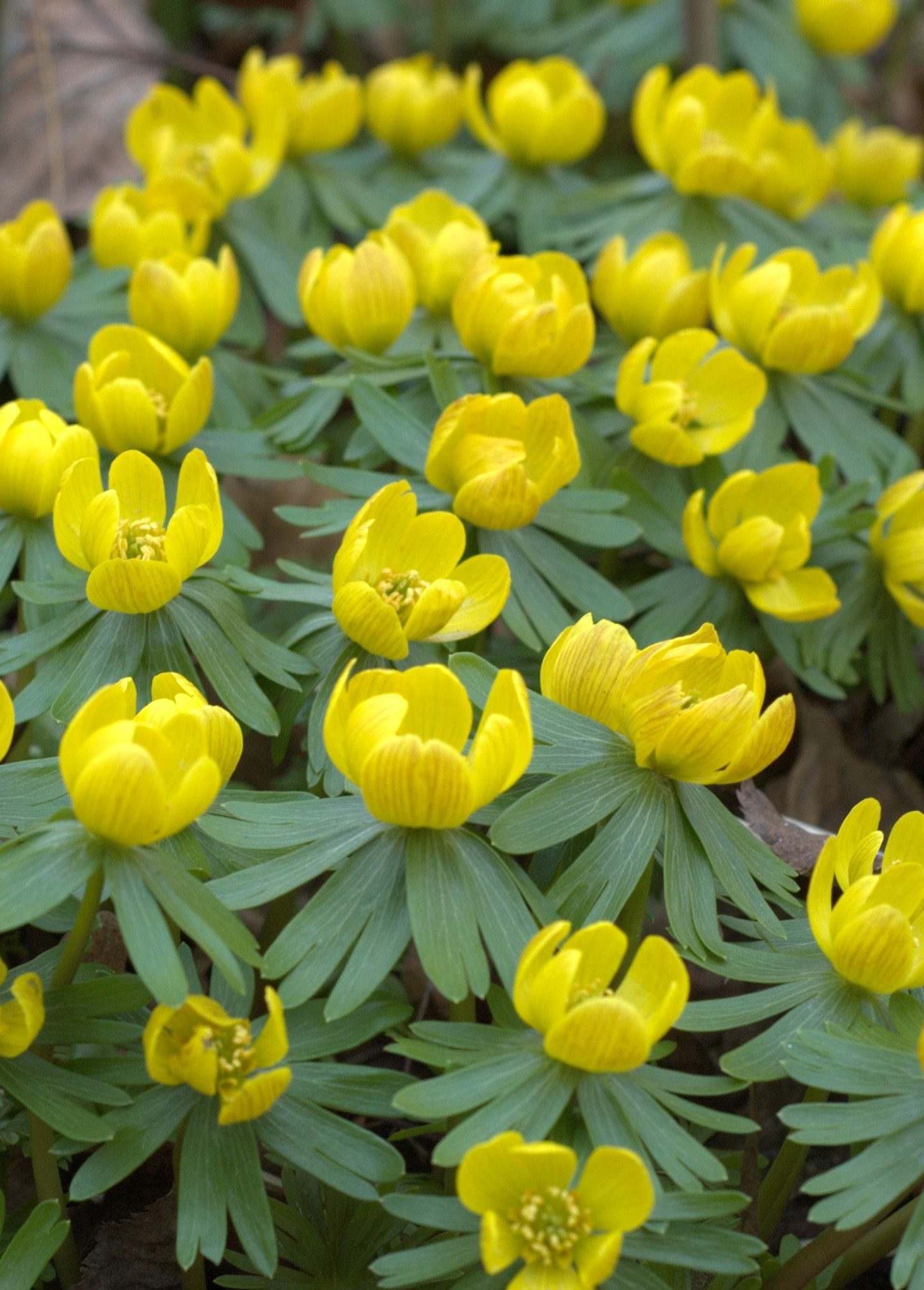 Flowers of the species Eranthis hyemalis.